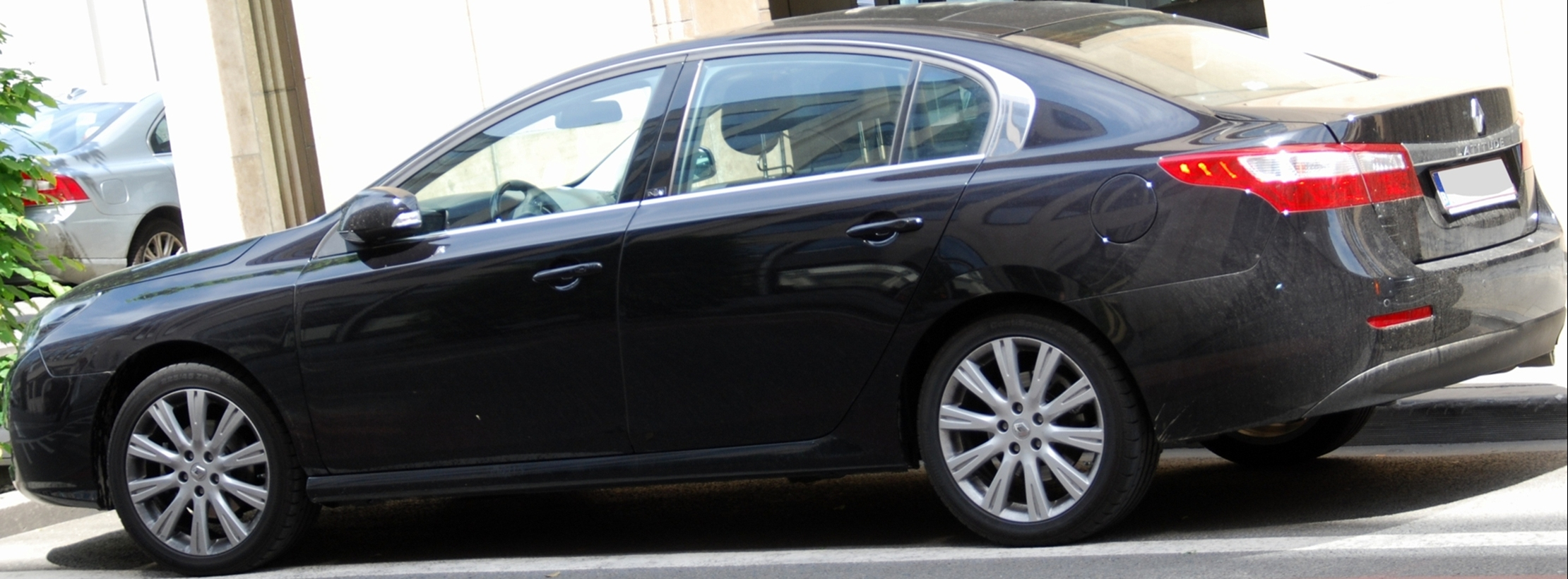 Renault Latitude in Brussels, Belgium